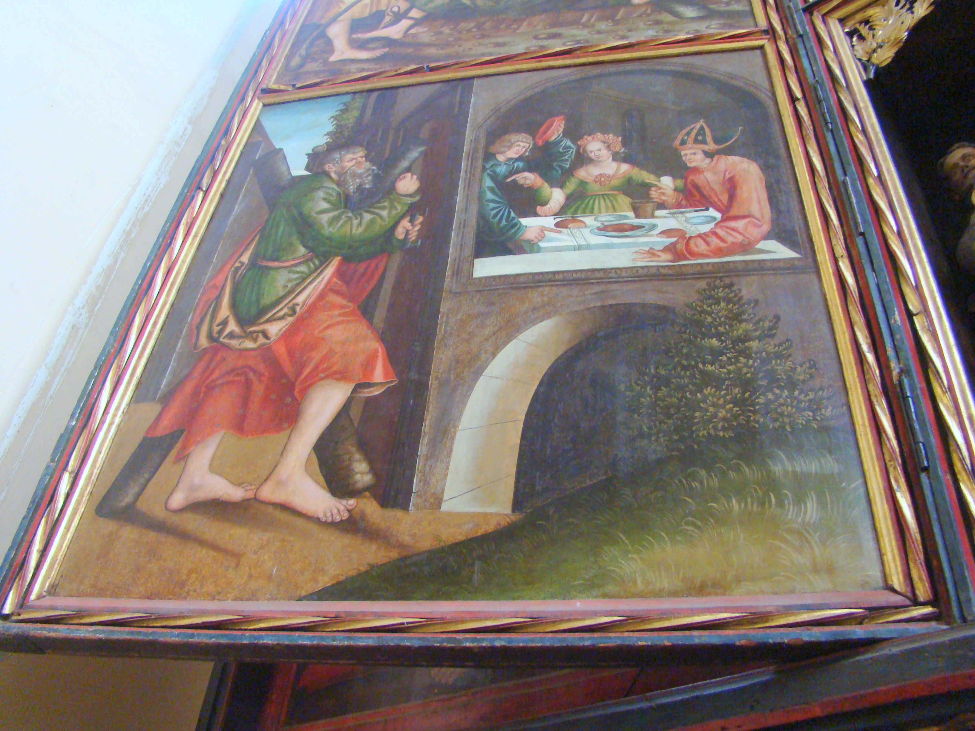 Lutheran church in Hălchiu, Brașov County, Romania